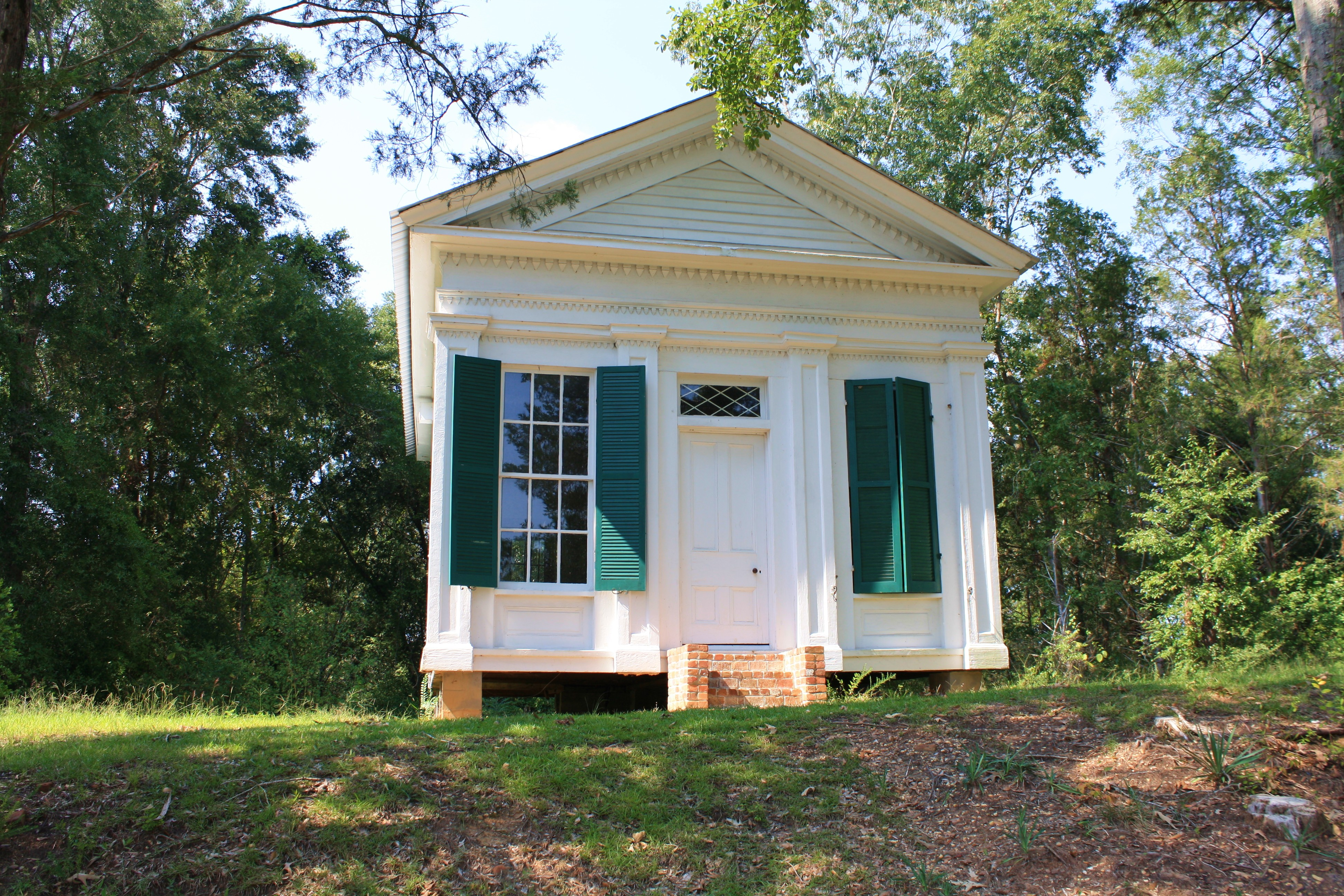 The old Bank of Gainesville in the historic district of Gainesville, Alabama.